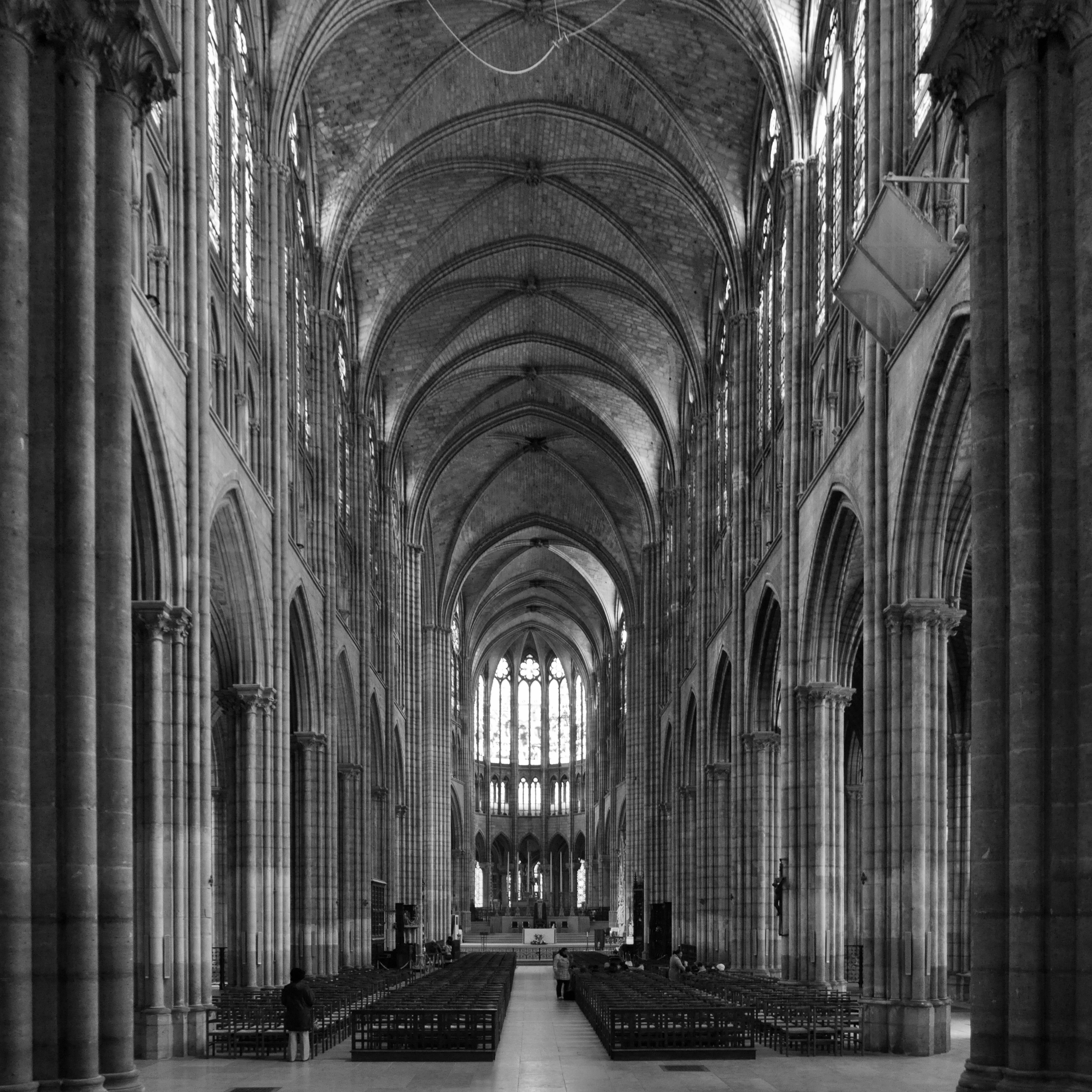 Interior of Saint-Denis